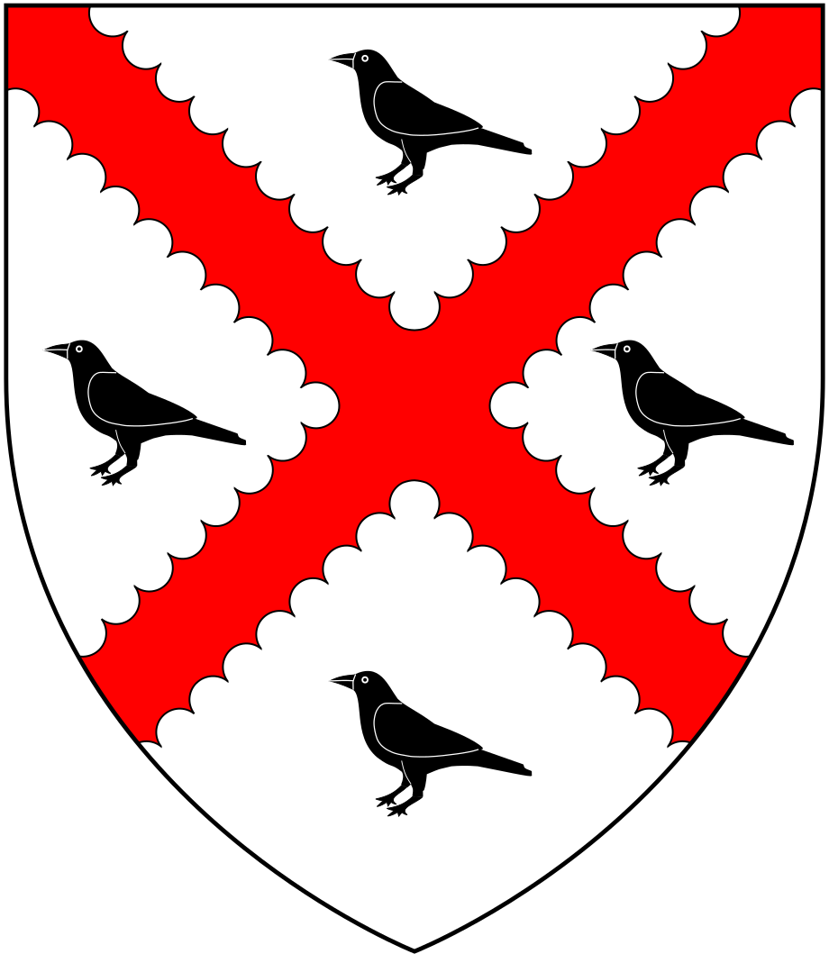 Arms of Beaufitz (of The Grange, Gillingham, Kent), alias "Bewfice": Argent, a saltire engrailed gules between four ravens proper. As quartered by Scott of Scot's Hall, Kent.